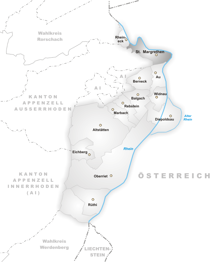 Municipality St. Margrethen